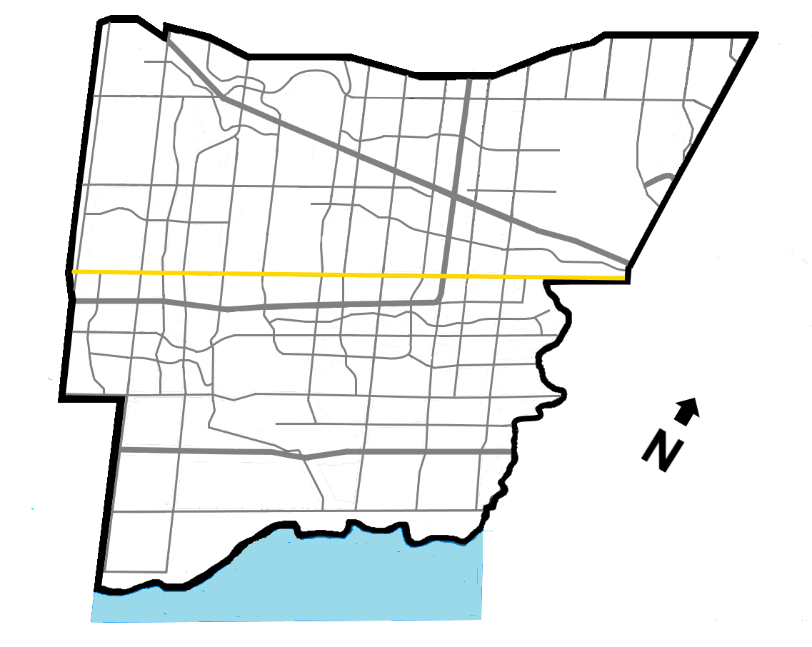 Eglinton Ave. in Mississauga